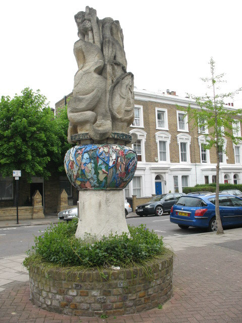 Tradescant memorial, South Lambeth. The memorial, opposite the end of Tradescant Road,commemorates the family of the same name, "plant collectors and Gardeners to Charles I whose house and gardens were near this site in the 17th century." The sculptor was Hilary Cartmel and it was unveiled by David Bellamy. The historical link is maintained in the nearby Tradescant Museum 307729.